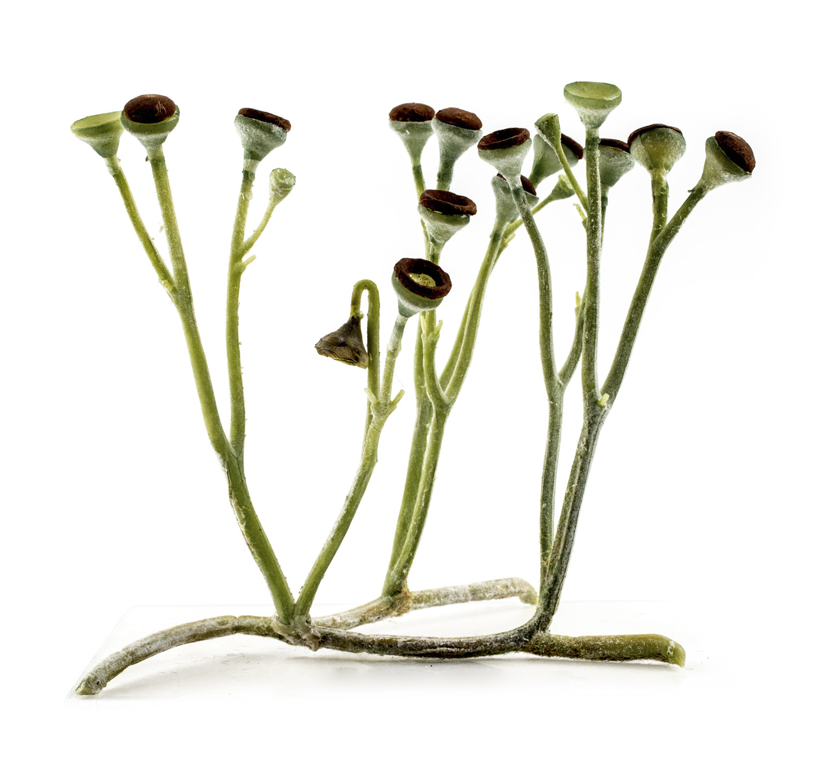 Reconstruction - 10:1 scale